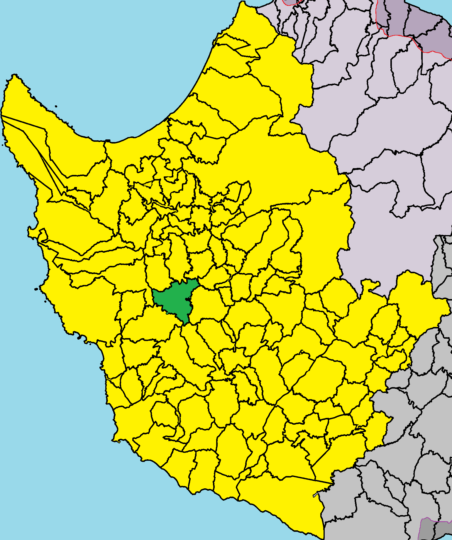 Stroumpi in Paphos District.